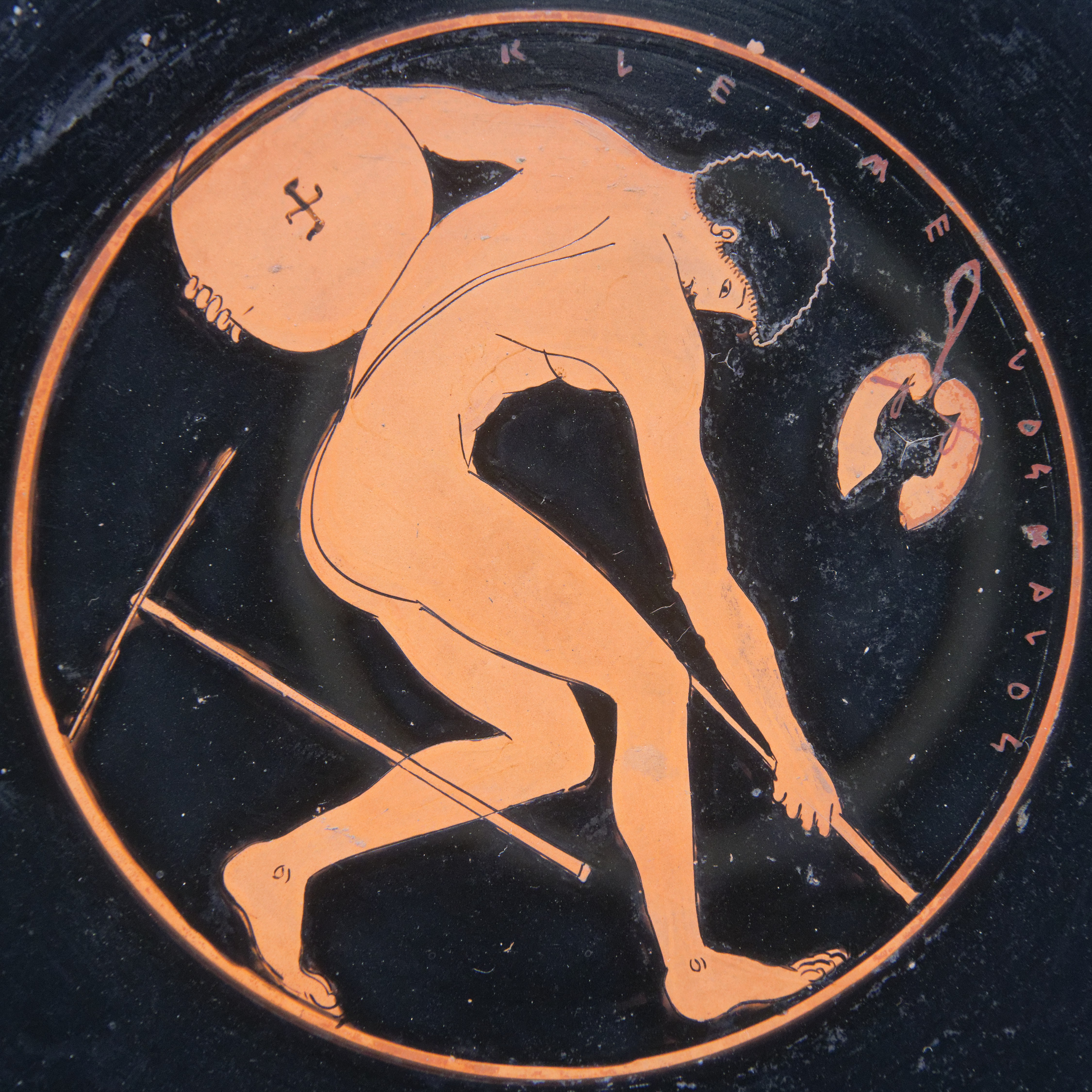 Young boy holding a discus at the palaestra. Near him, a pick to prepare the landing ground for the long jump, and a pair of dumbbells used to maintain balance during the jump. Interior of an Attic red-figure kylix.